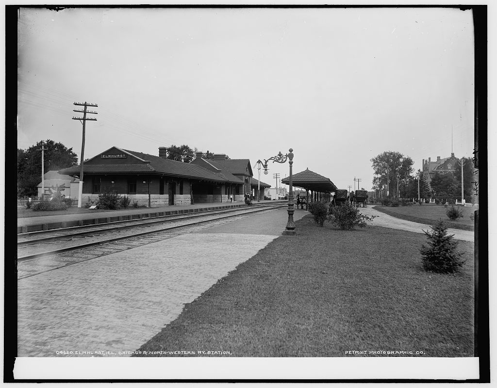 Elmhurst Station 1880-1899